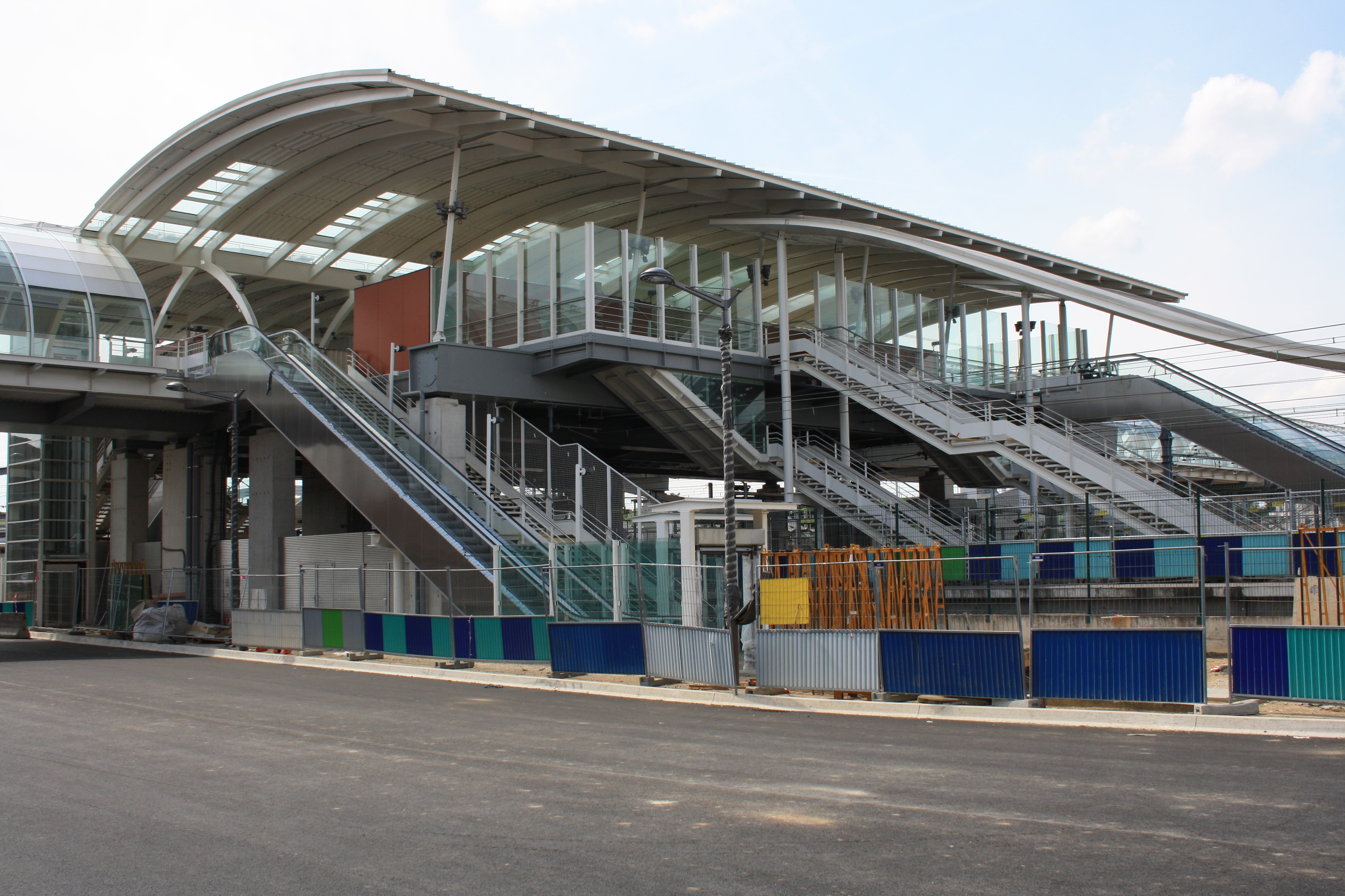 Railway station Massy-Palaiseau RER in Massy, Essonne in France